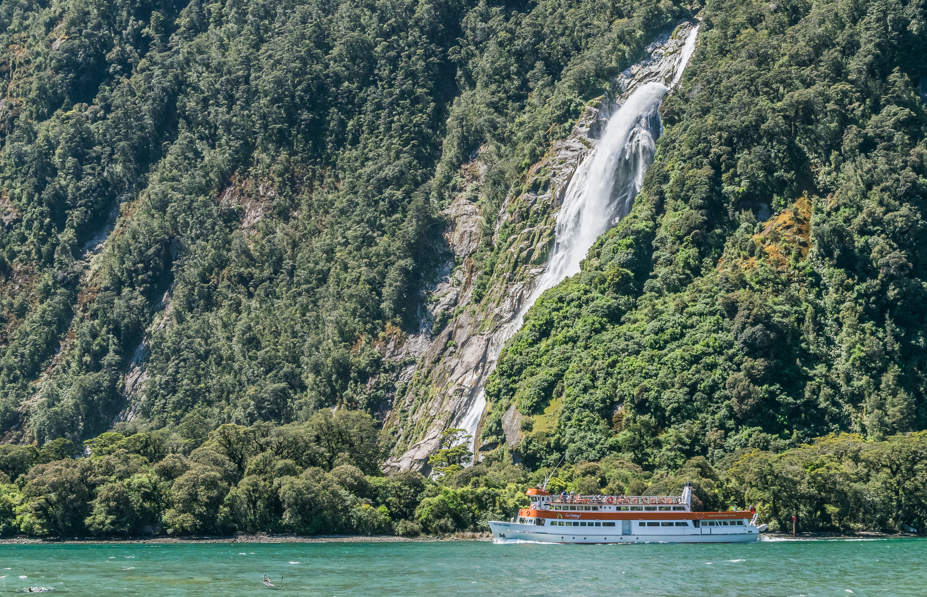 Bowen Falls in Fiordland National Park, South Island of New Zealand